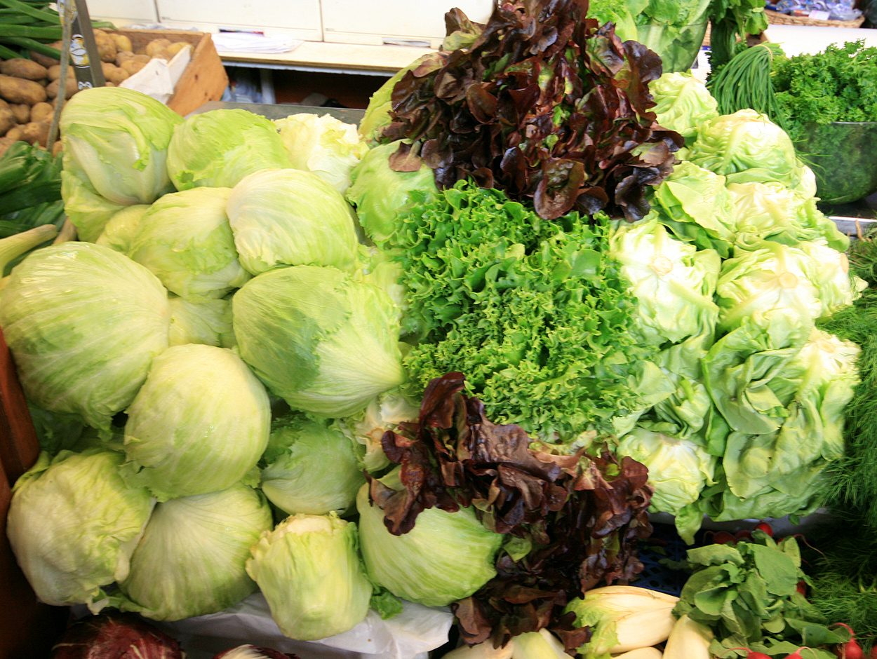 Different sorts of lettuce at a market in Helsinki, Finland.